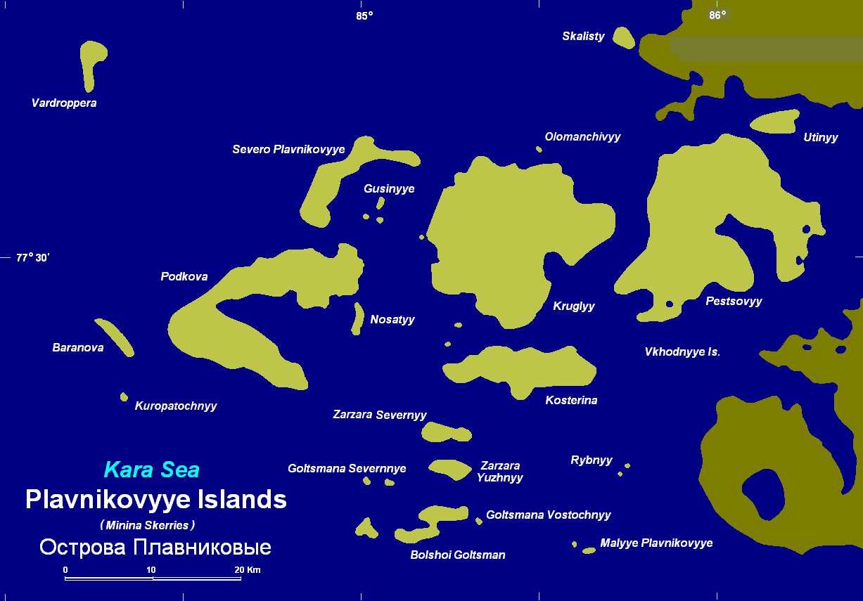 color island map